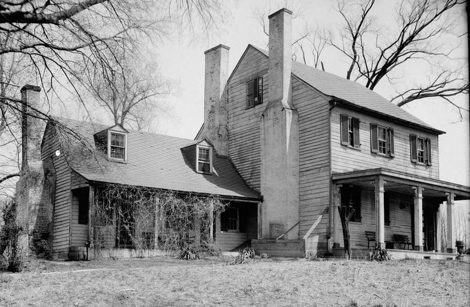 Historic American Buildings Survey John O. Brostrup, Photographer April 21, 1936 11:45 A. M. VIEW FROM SOUTHWEST (front) - Woodstock, 8706 South East Crain Highway (U.S. Route 301), Upper Marlboro, Prince George's County, MD